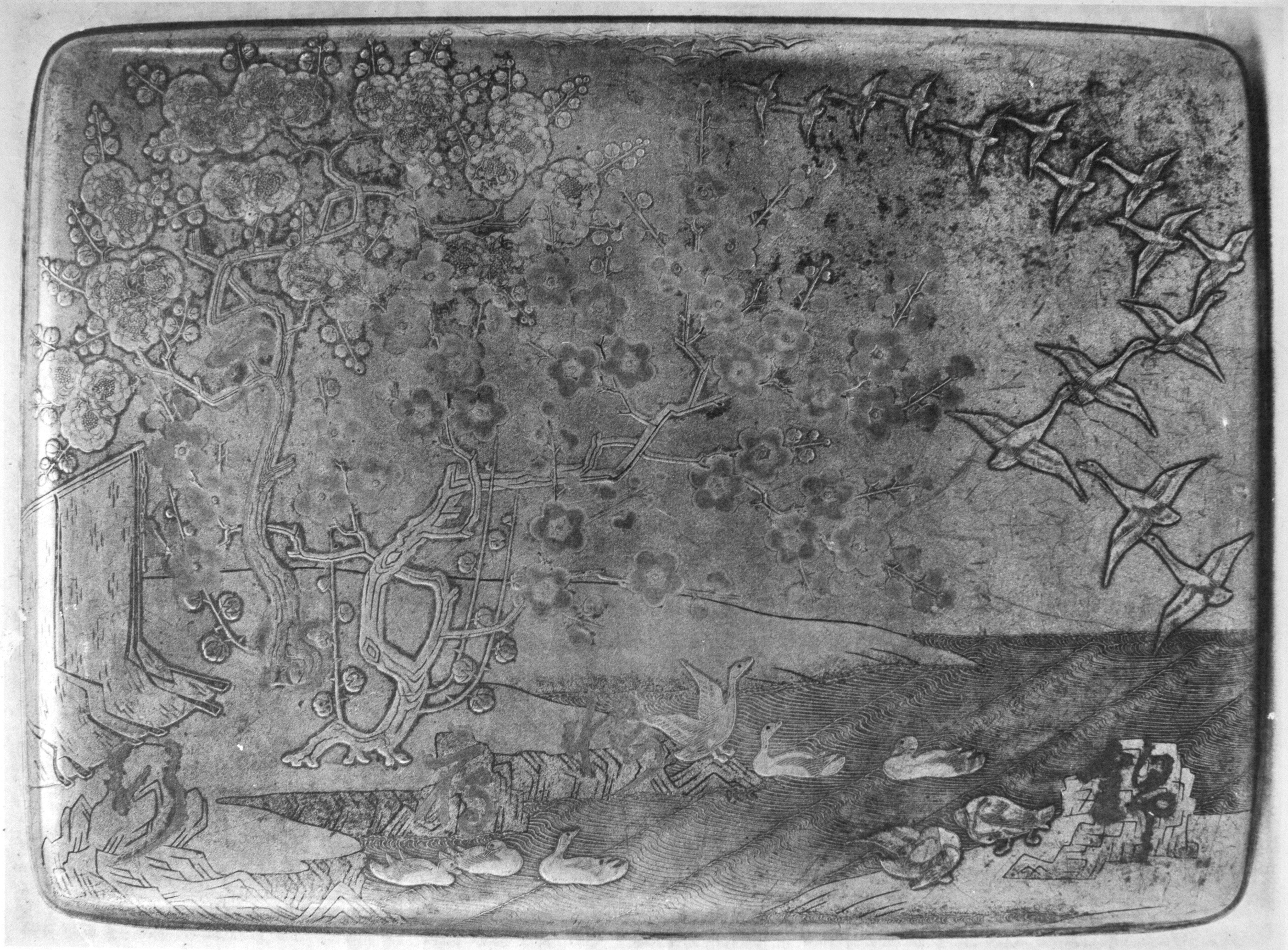 Mishima Taisha, Shizuoka, Japan